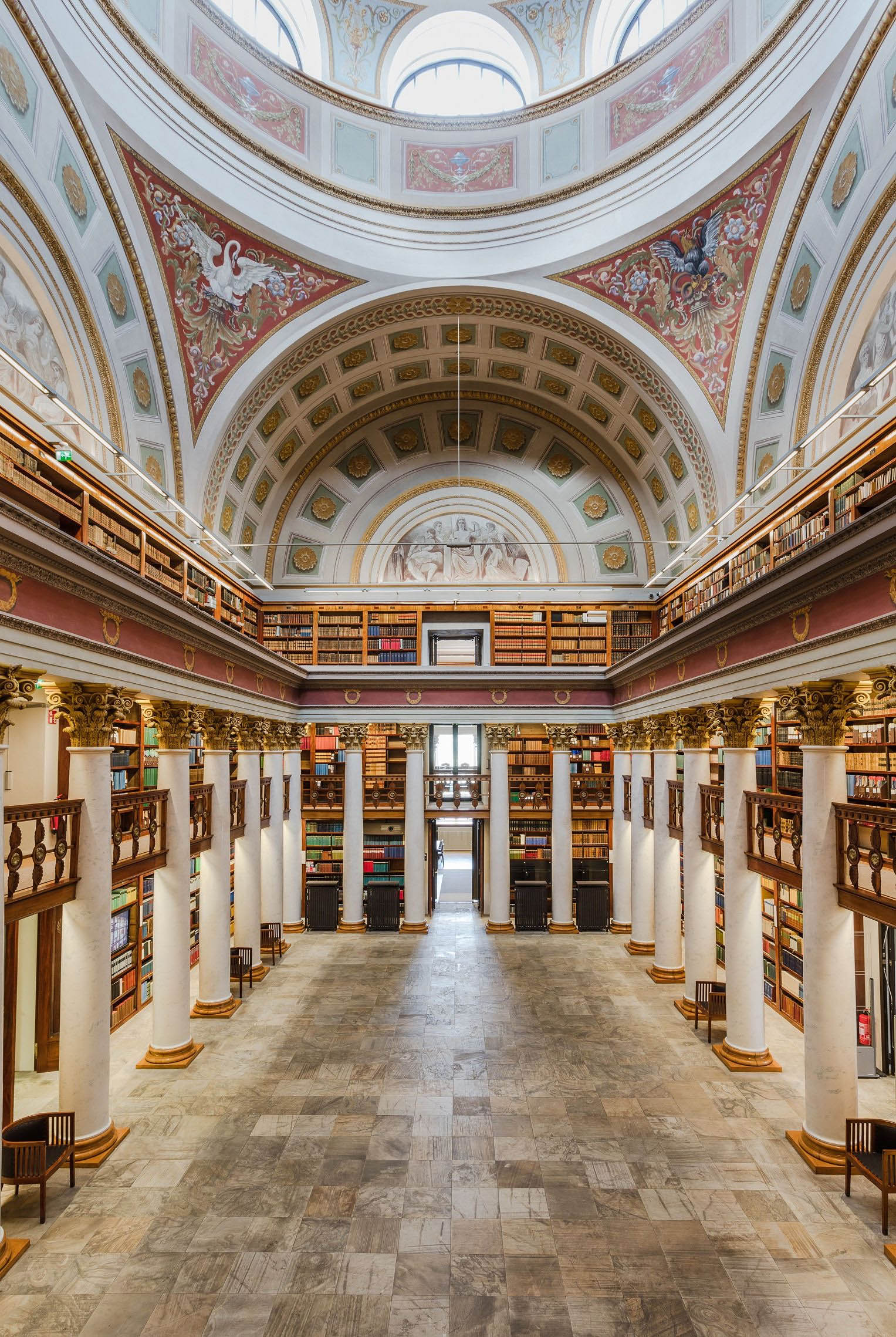 The National Library of Finland, The Cupola Hall